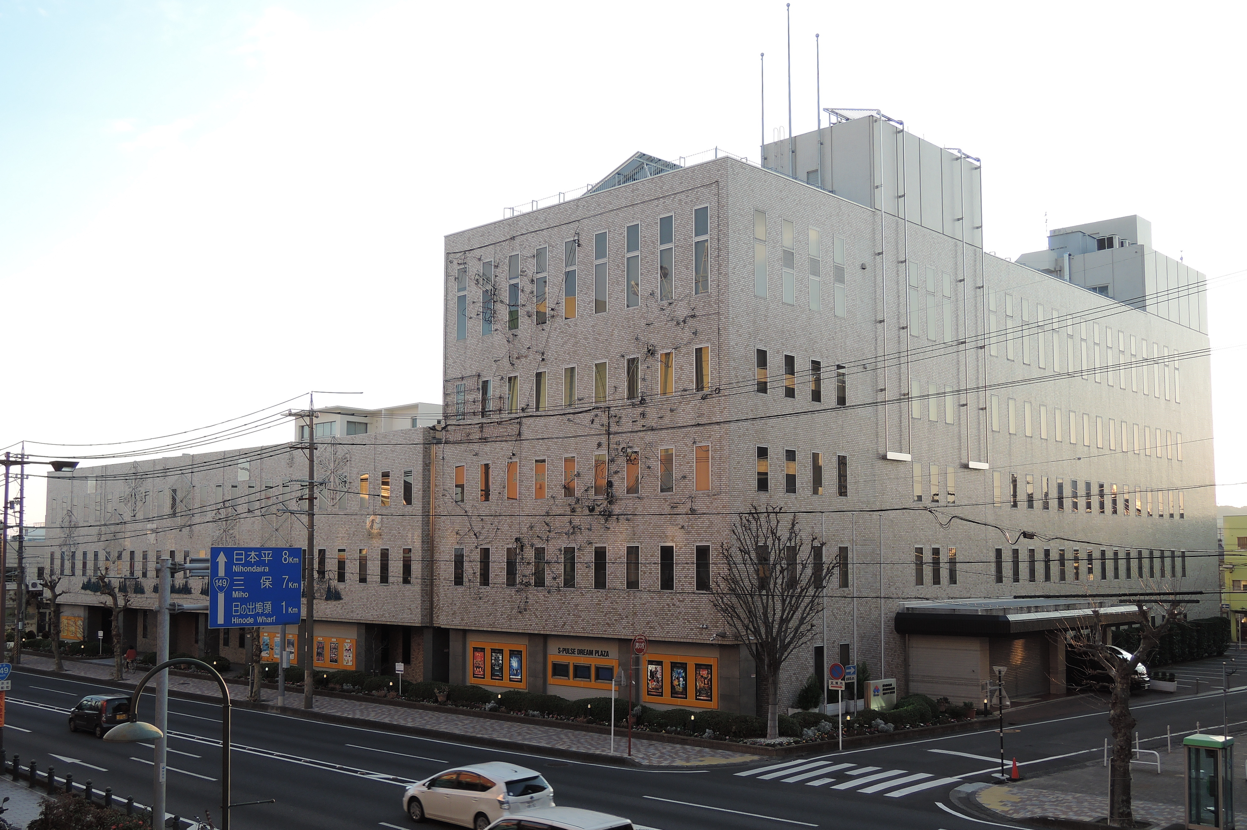 Headquarters of Suzuyo & Co., Ltd.,Shizuoka Prefecture, Japan